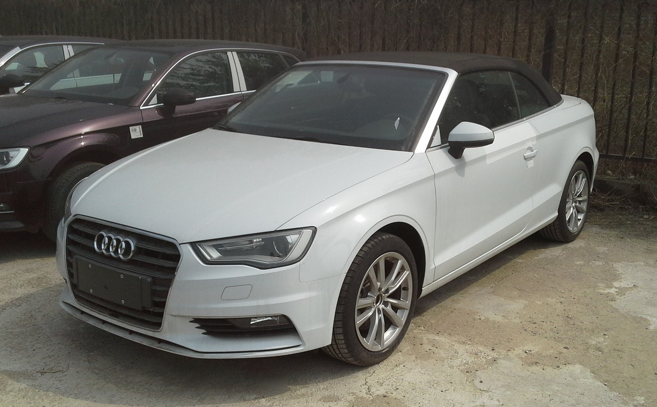 Audi A3 8V Cabriolet photographed in Beijing, China.